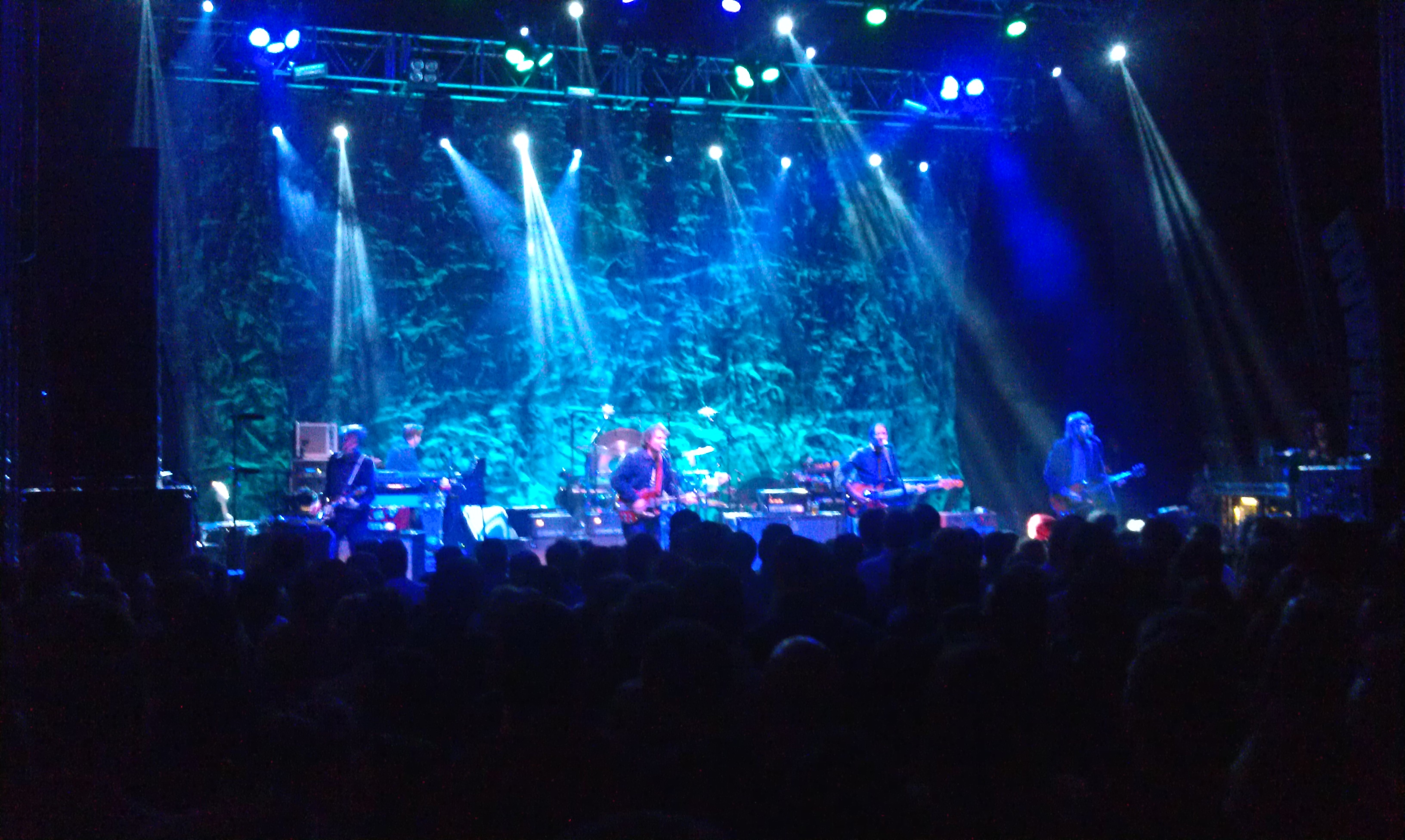 Wilco at the Riviera in Chicago